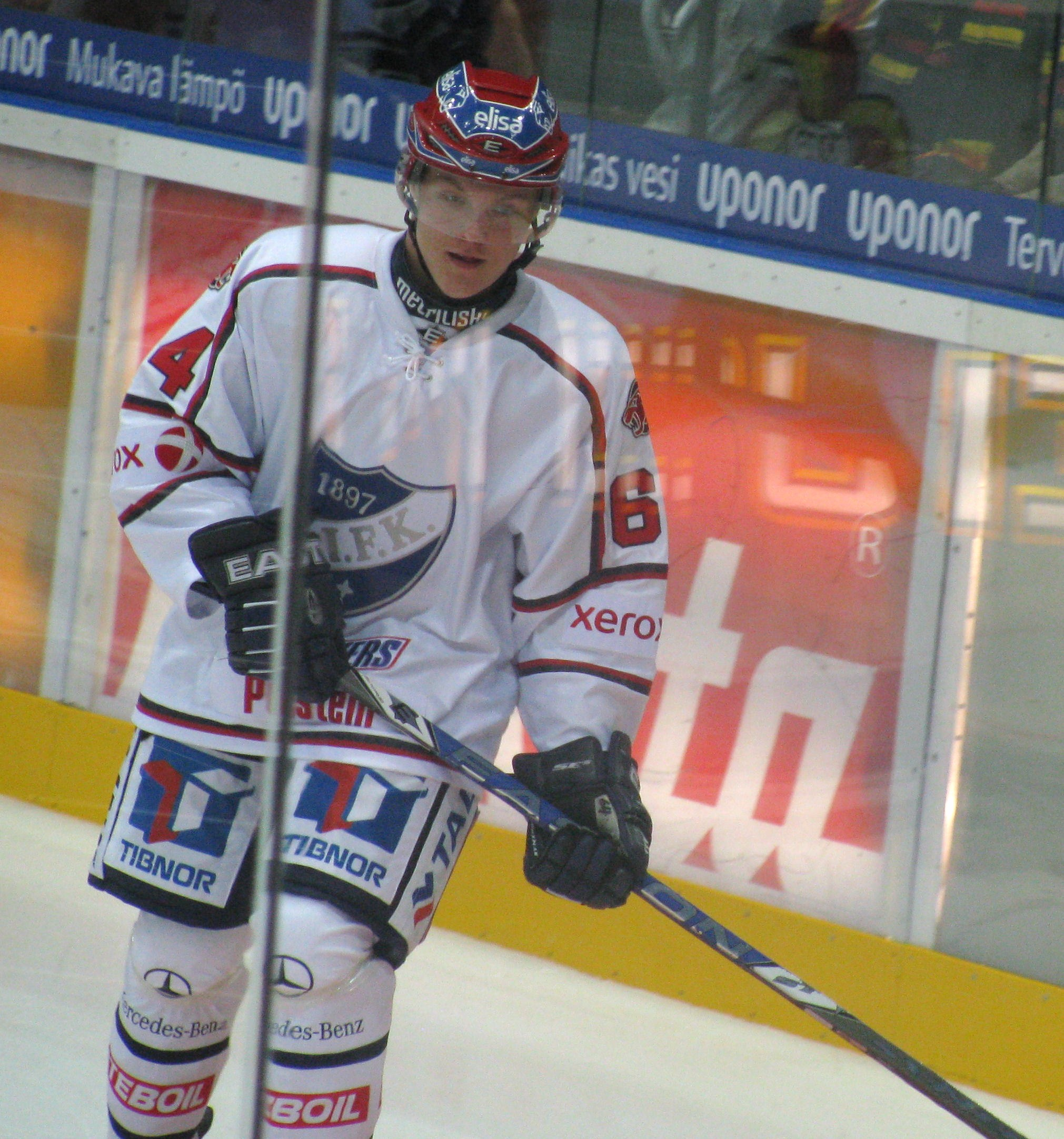 Mikael Granlund of HIFK.